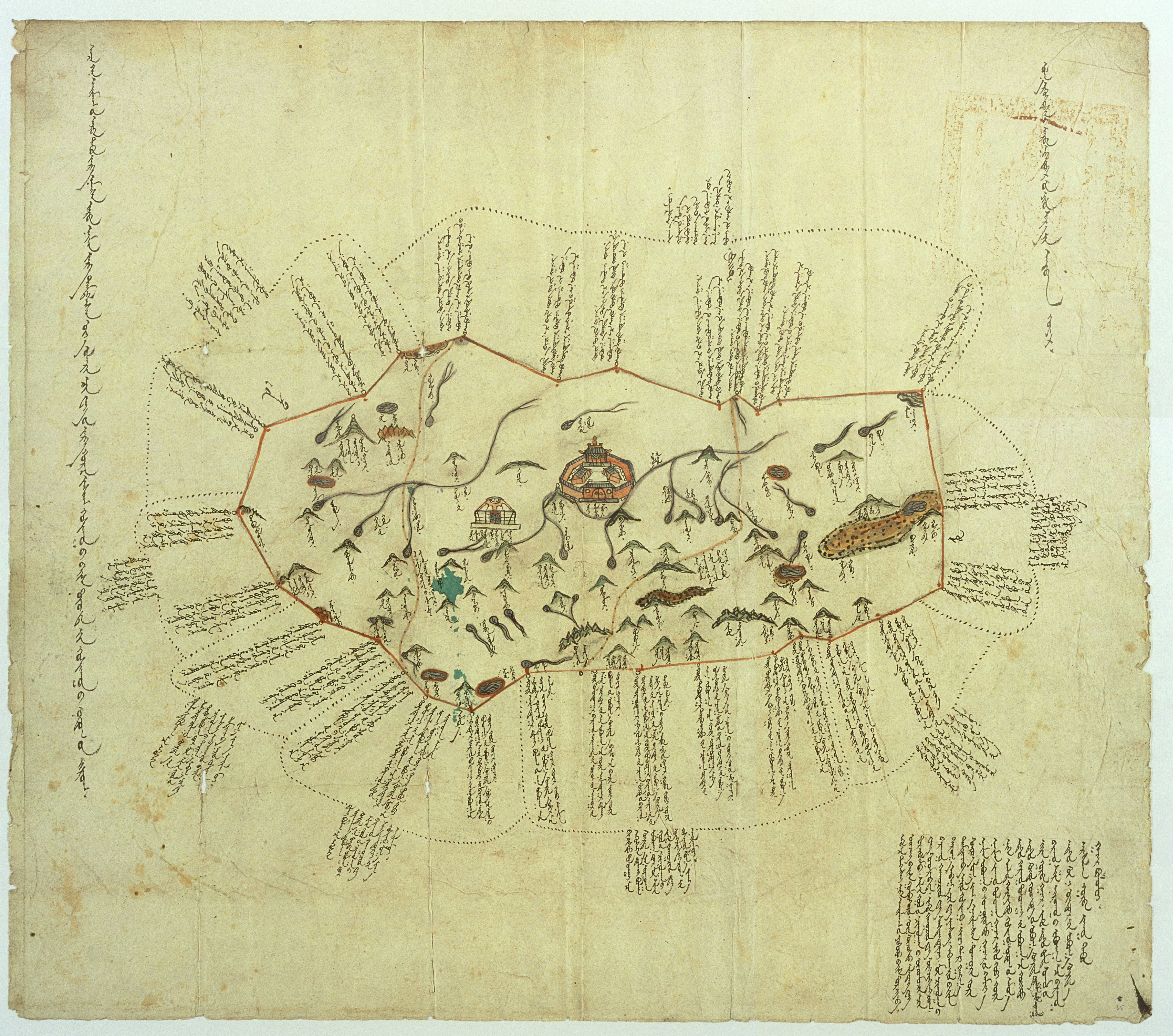 Banner of Tüden in the Setsen Han Aimag, eastern Mongolia. Material is Chinese paper, original size is 55x63 cm. See also Kamimura's article, p. 8.